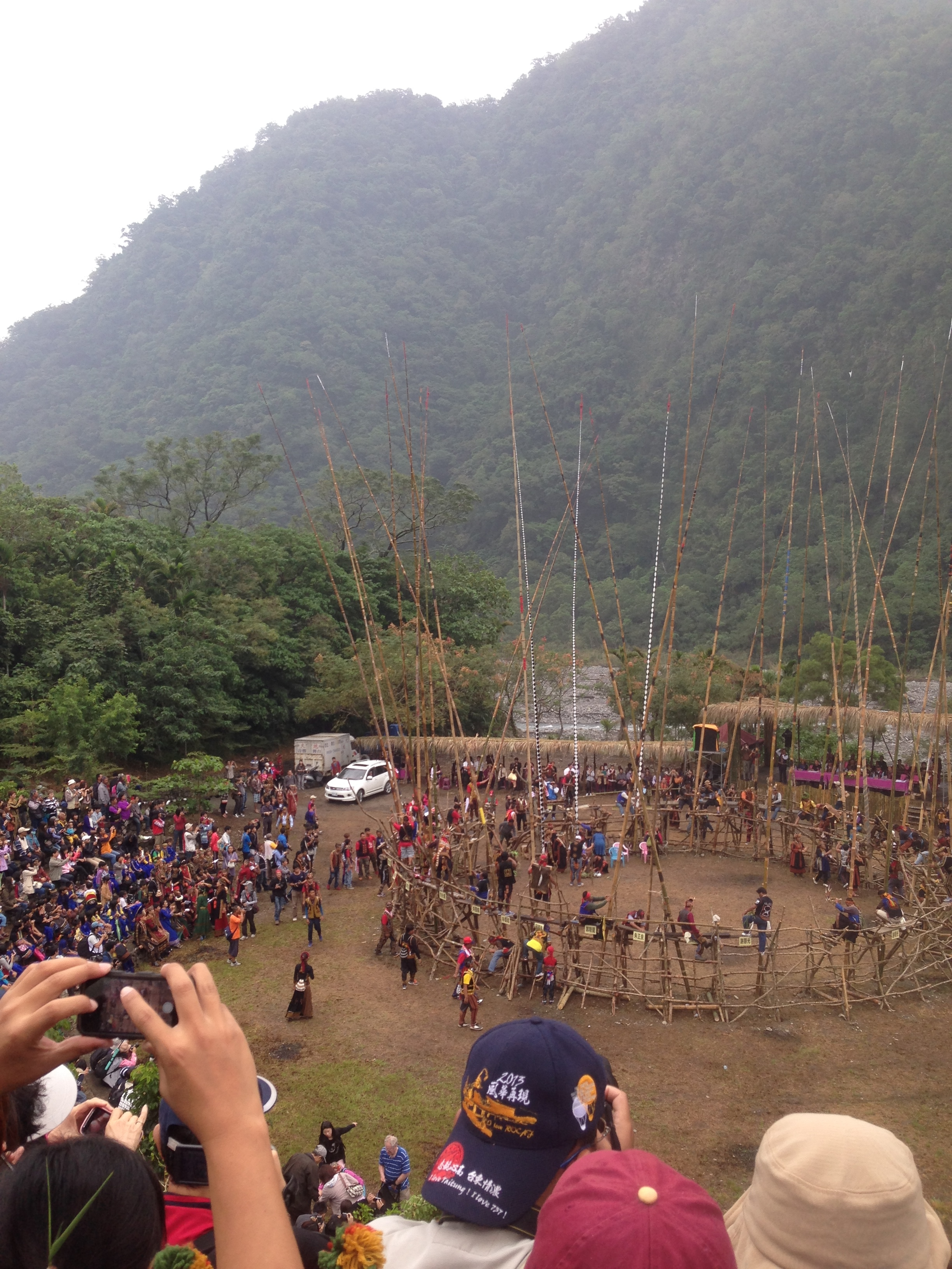 The ceremony Maljeveq in Tjuabal.